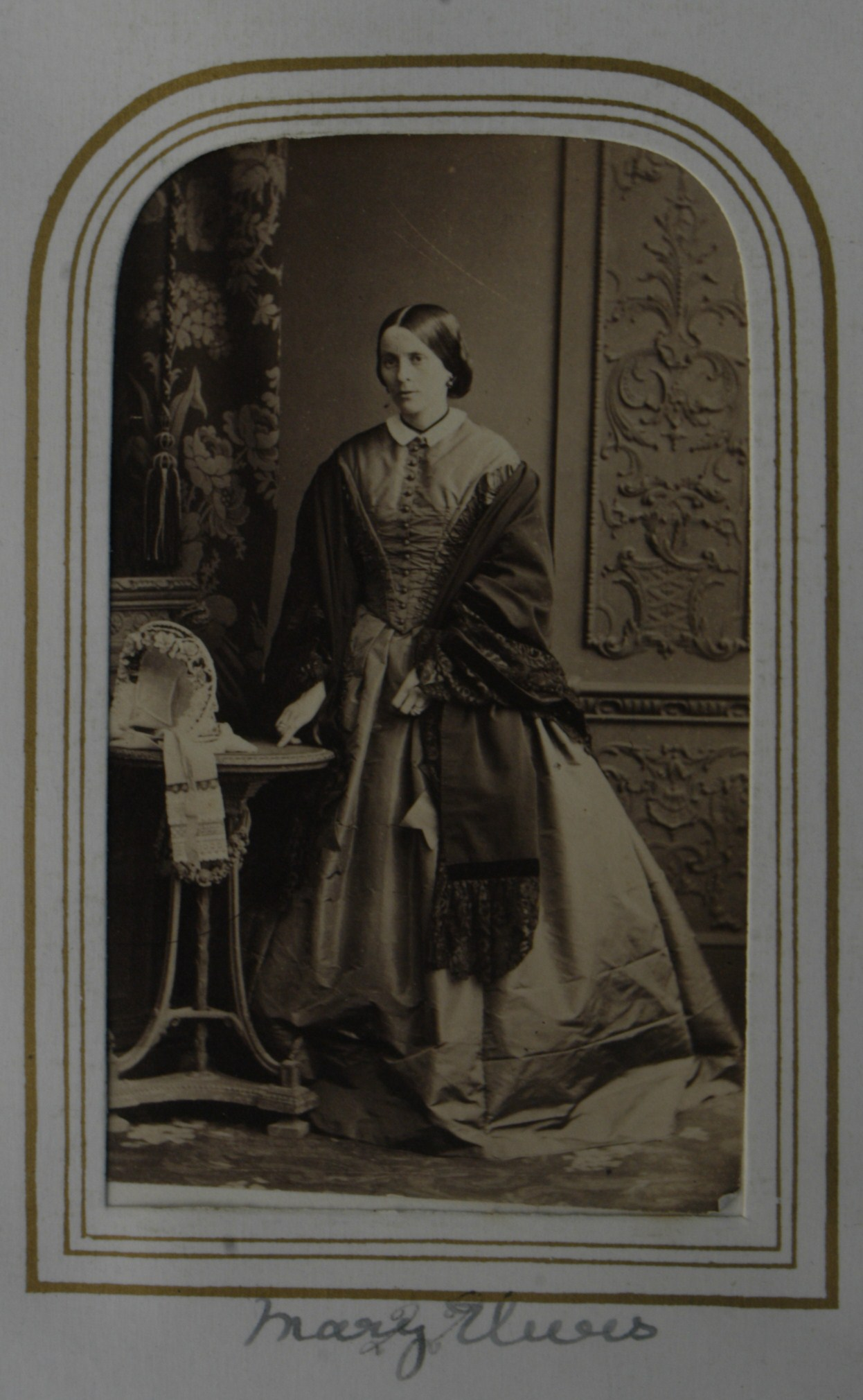 My digital photo (R. de SalisRodolph (talk) 14:41, 29 May 2014 (UTC)) of Mary Elwes, aka Mary Bromley (1824-1913), daughter of Admiral Sir Robert Howe Bromley, 3rd Bt. Other information Waller of Farmington album/Sammlung Fane de Salis. Rachel De Salis (died 1954) album.